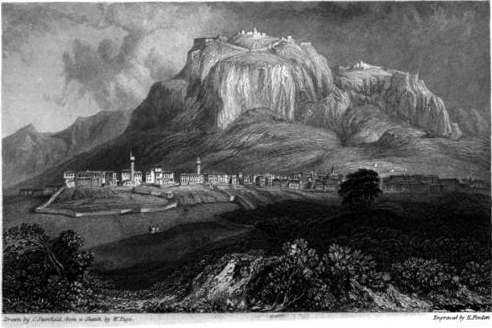 Corinth on 1833